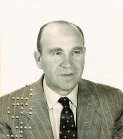 Photo of the Jewish Hungarian football coach Béla Guttmann taken from his Argentinian identity card